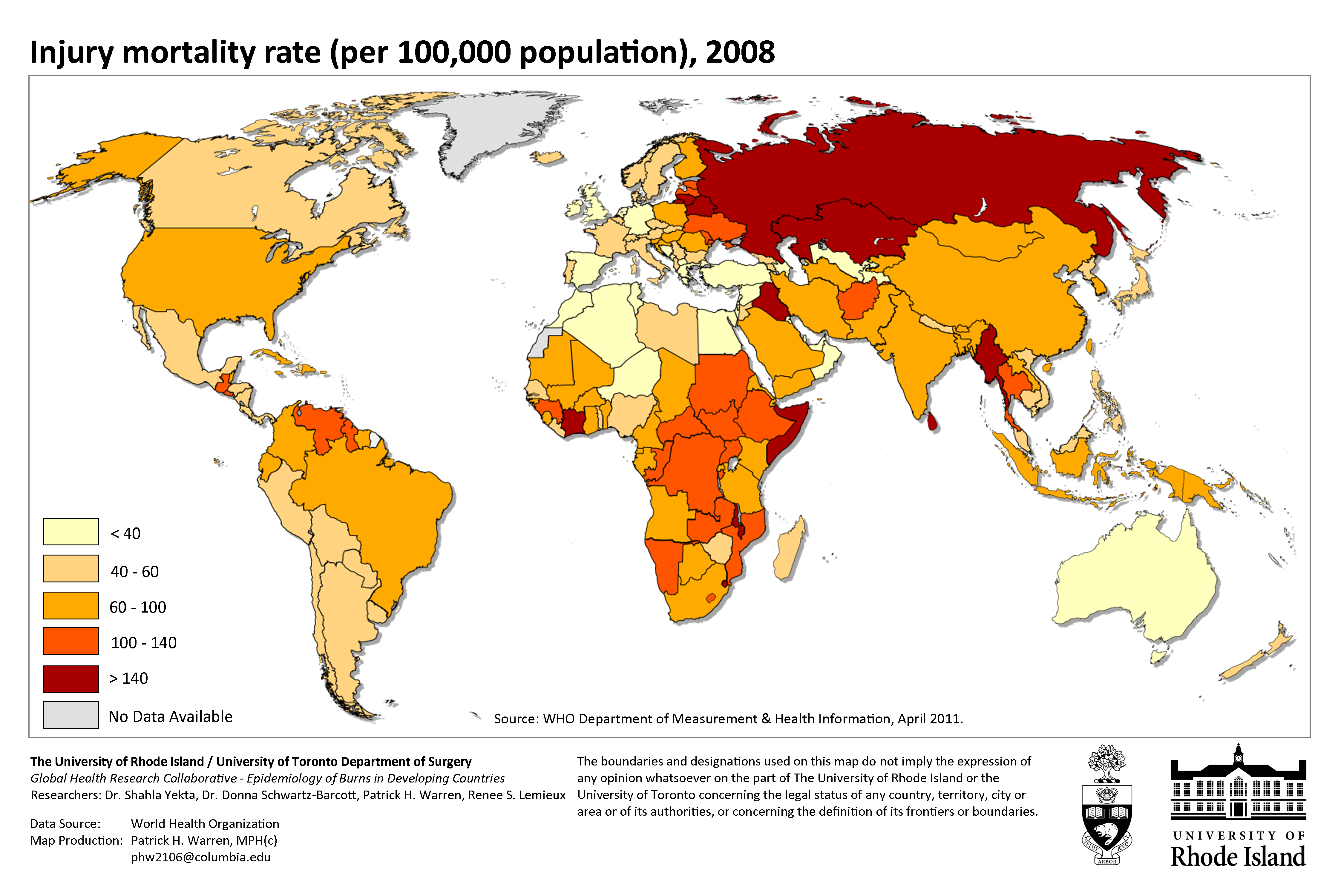 Injury mortality rate (per 100,000 population), worldwide, 2008